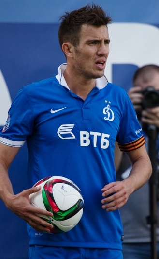 Boris Rotenberg